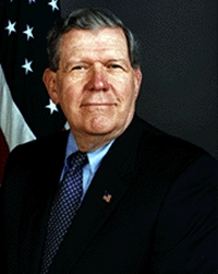 James A. Kelly, Assistant Secretary of State for East Asian and Pacific Affairs